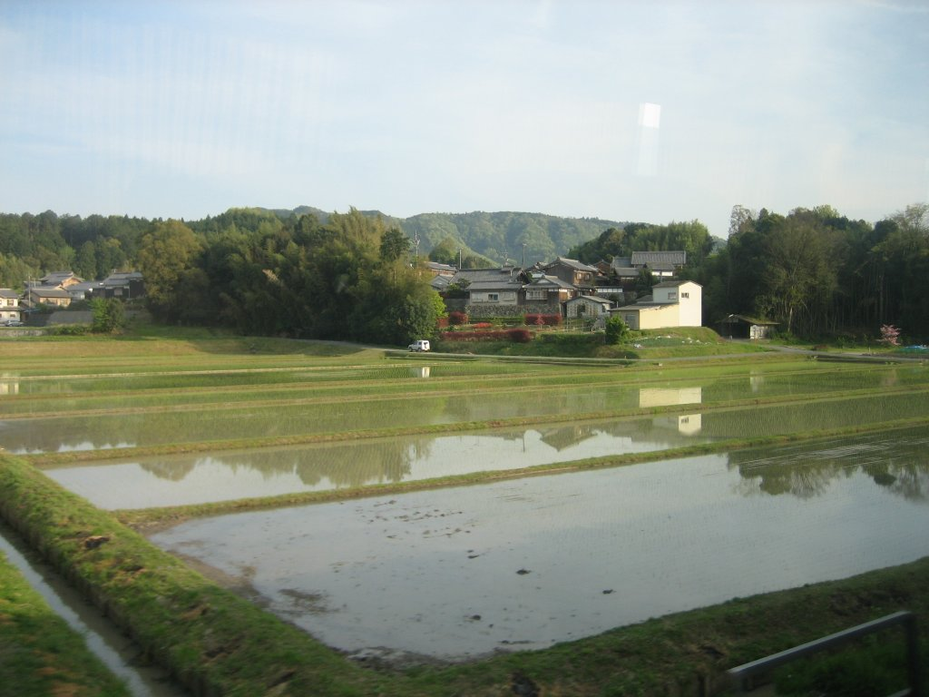 Rice paddies in Aichi prefecture, Japan